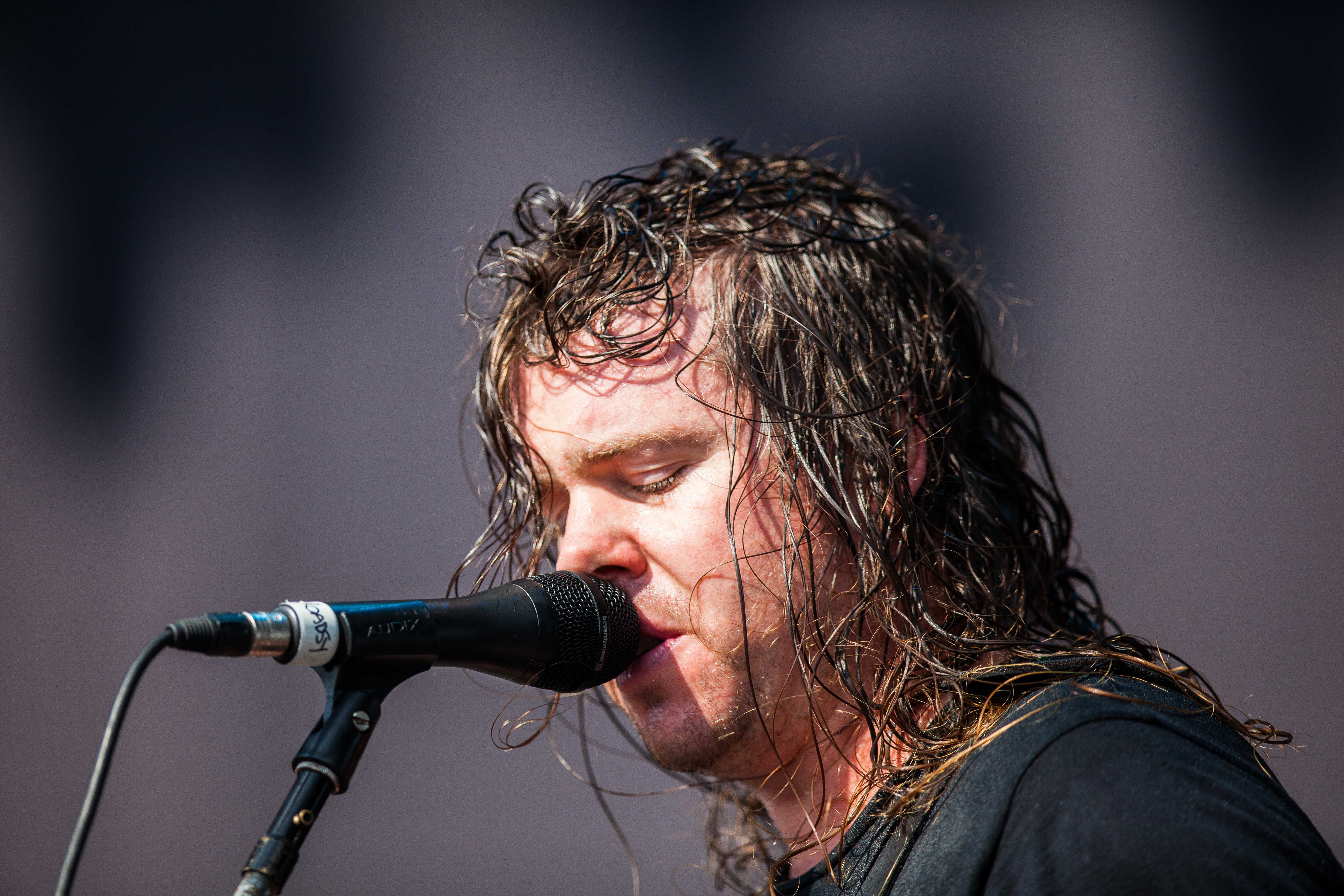 Rock'n'Heim Rock Festival Hockenheim August 2014